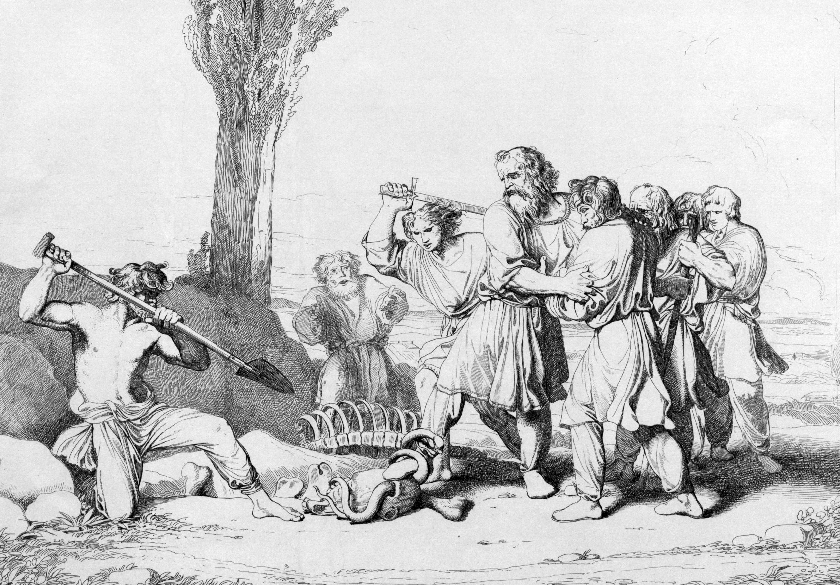 Death of Oleg of Novgorod